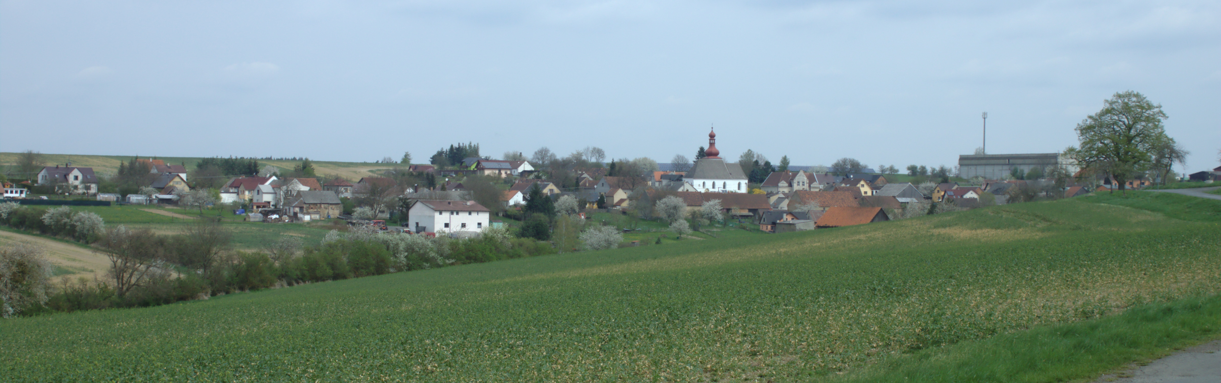 View of Stanětice from south, Plzeň Region, CZ